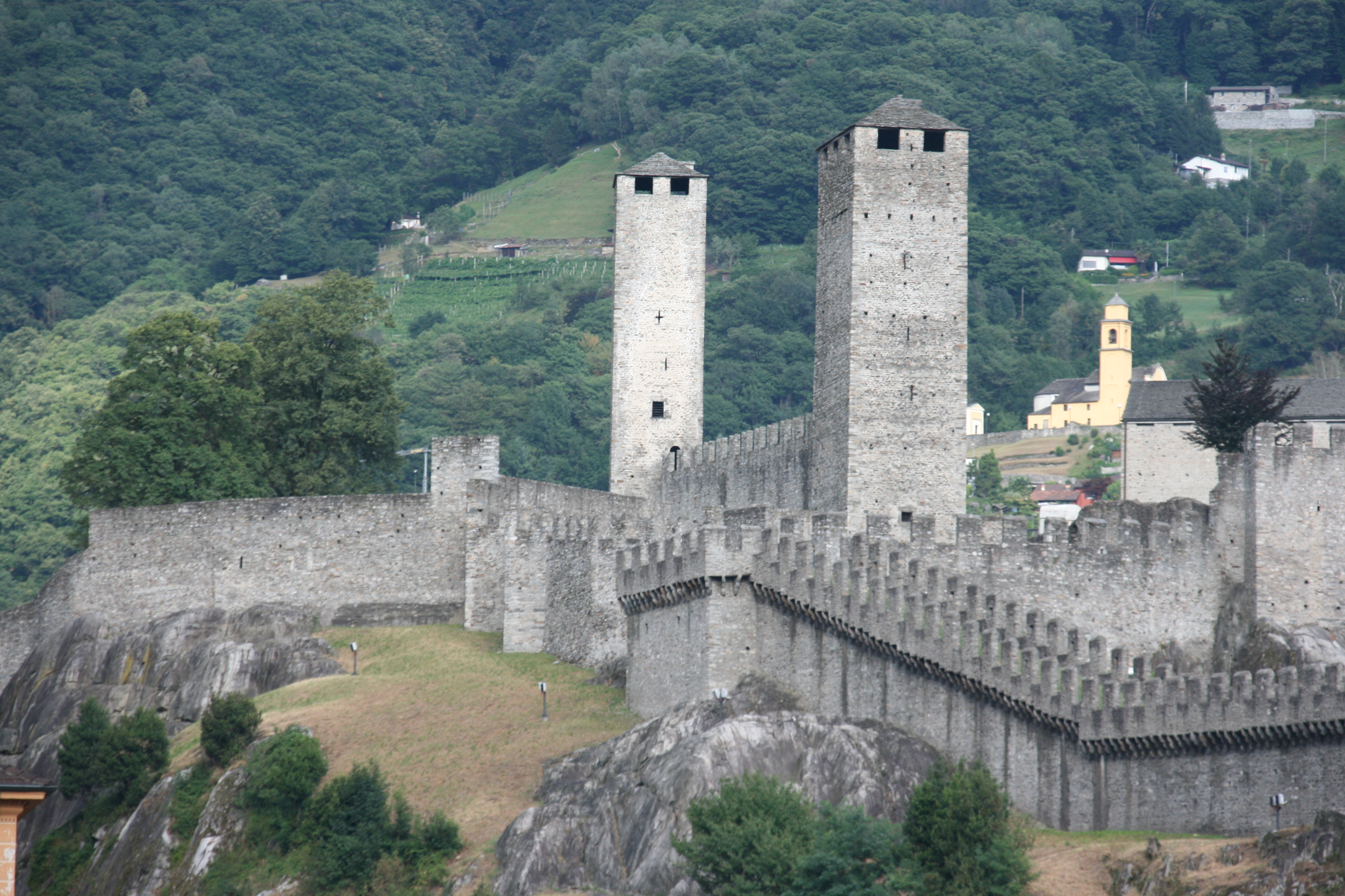 Two towers and walls of Bellinzona